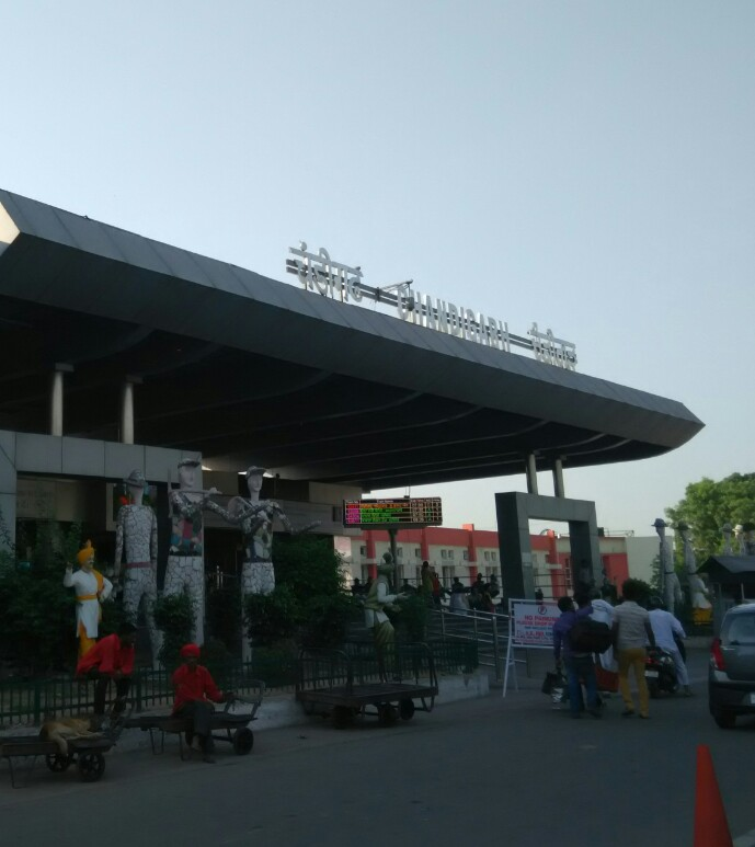 Chandigarh Railway Station